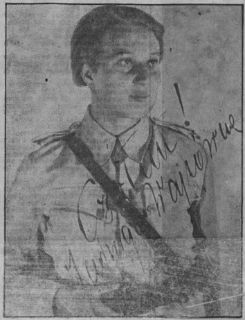 Jadwiga Wajsówna 1912-1990